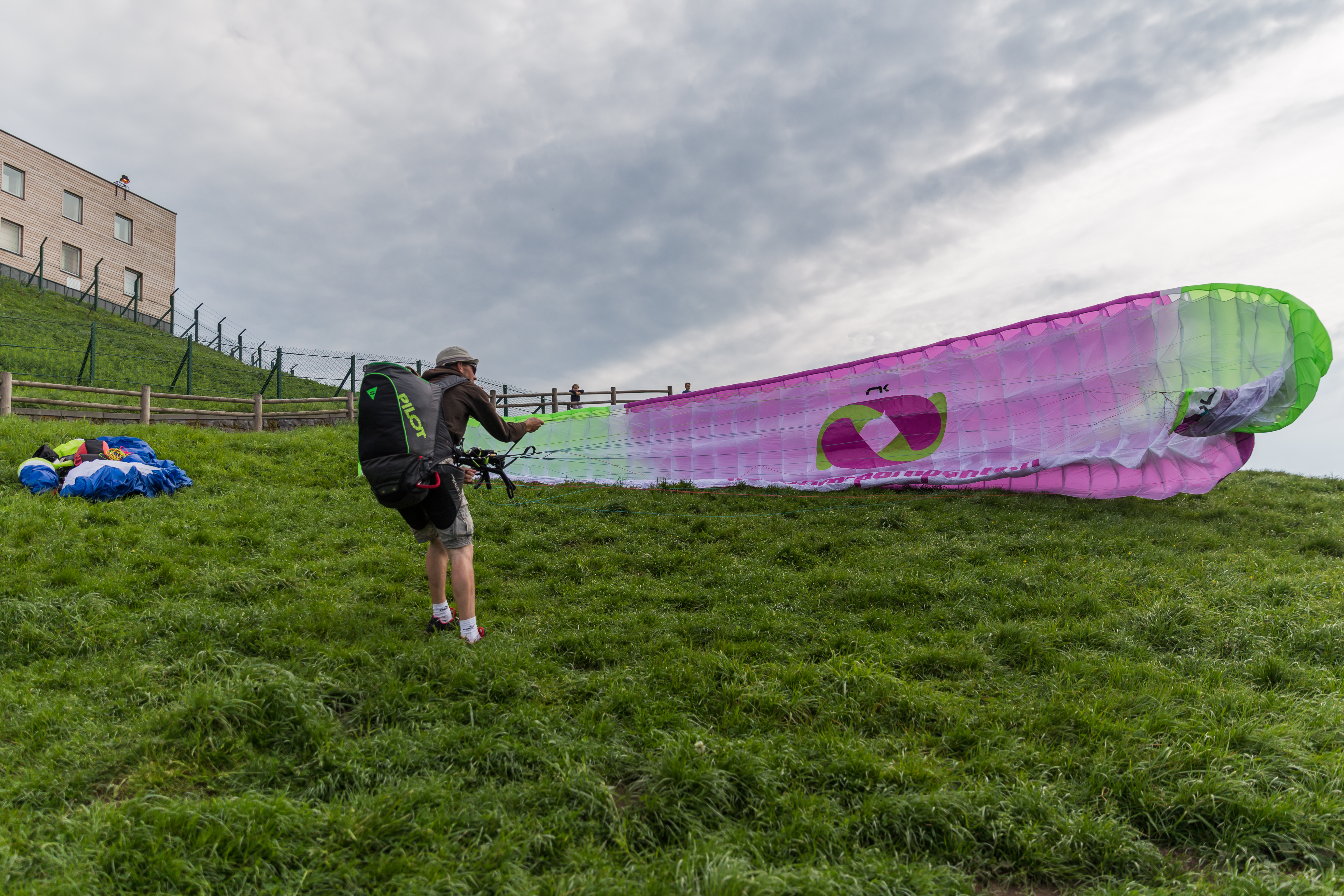 Inflating sailing for flight on the puy de Dôme, France.